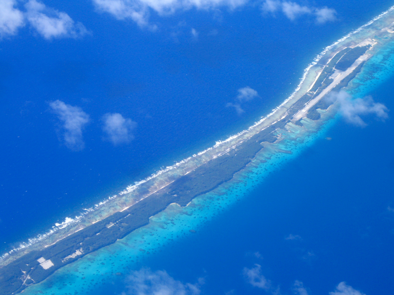 Overview on Mururoa atoll on December 23 2005.